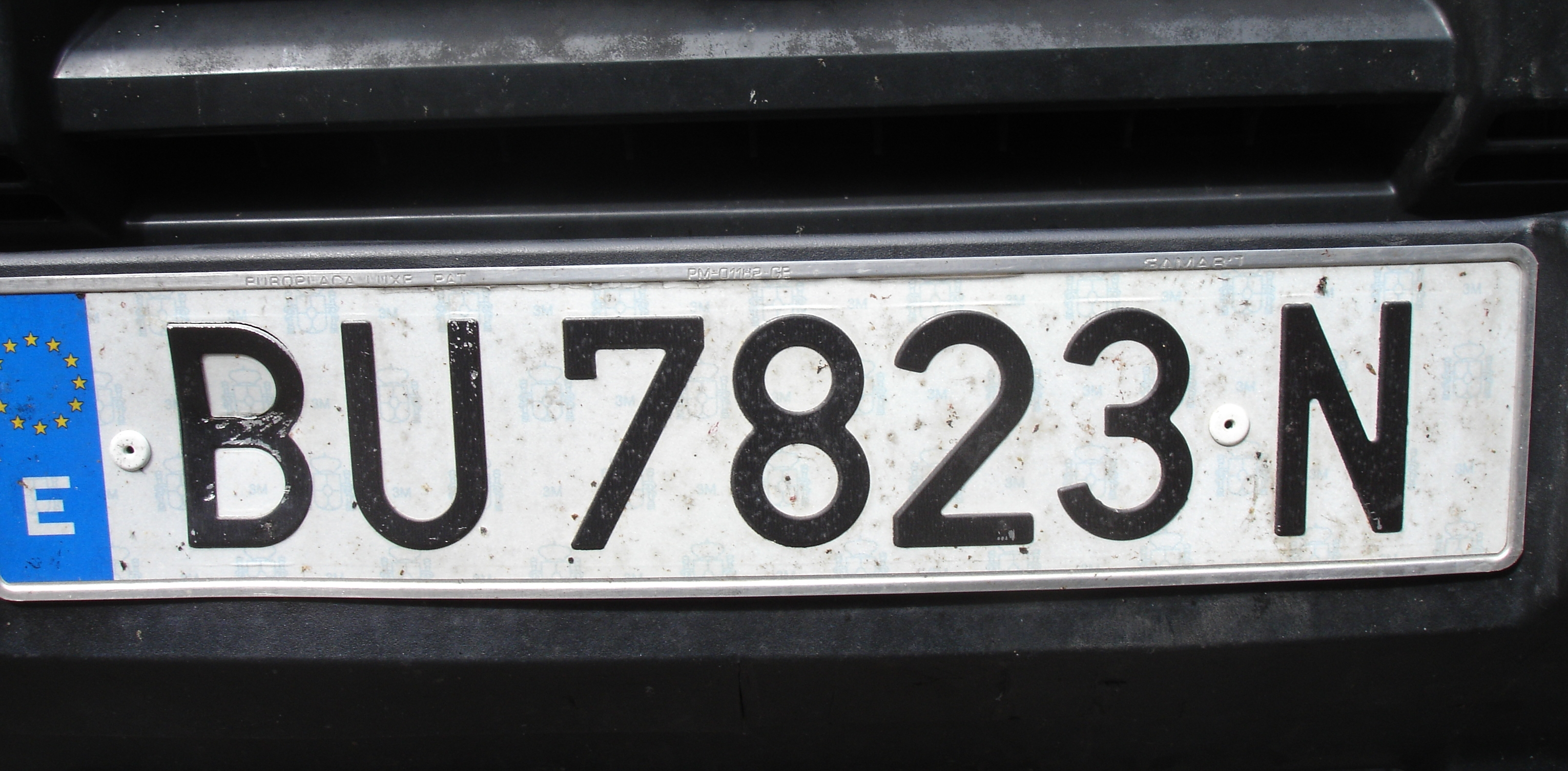 Spanish car registration